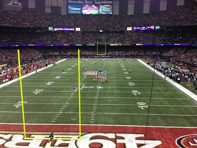 from the south end zone during the 1st half of the game